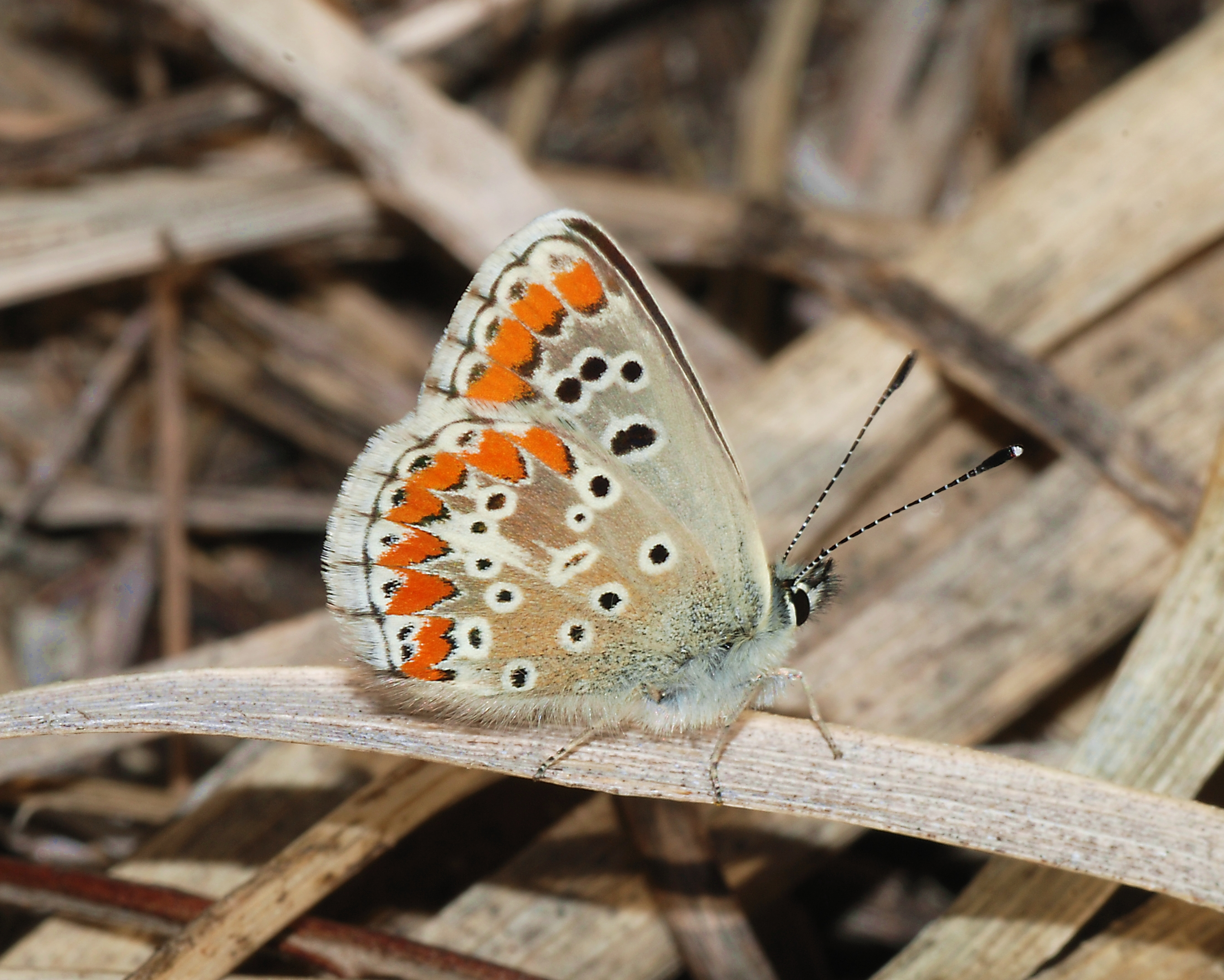 A female butterfly of the Lycaenidae family: Aricia agestis